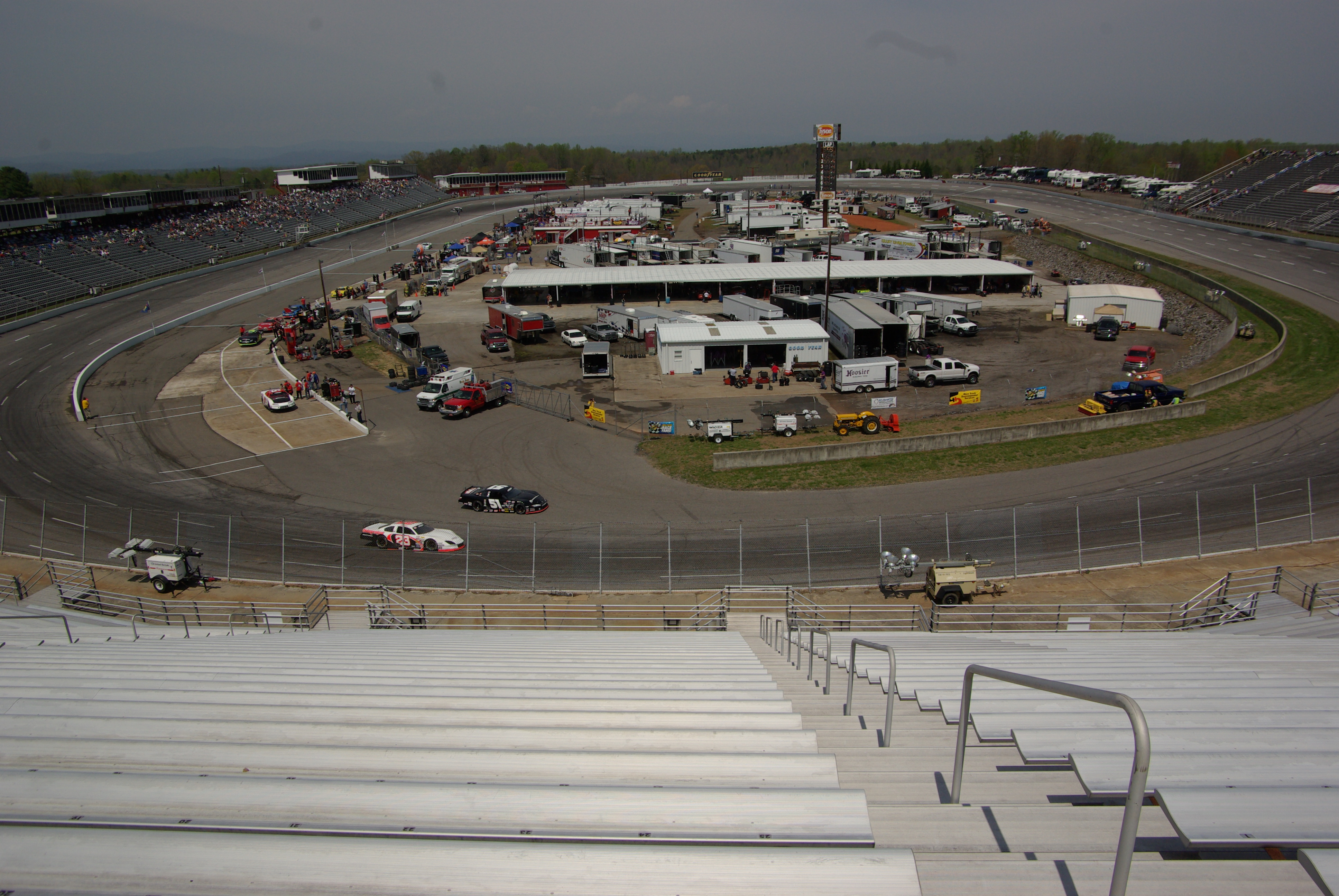 PASS "The Race" at North Wilkesboro Speedway, North Wilkesboro, NC April 10, 2011